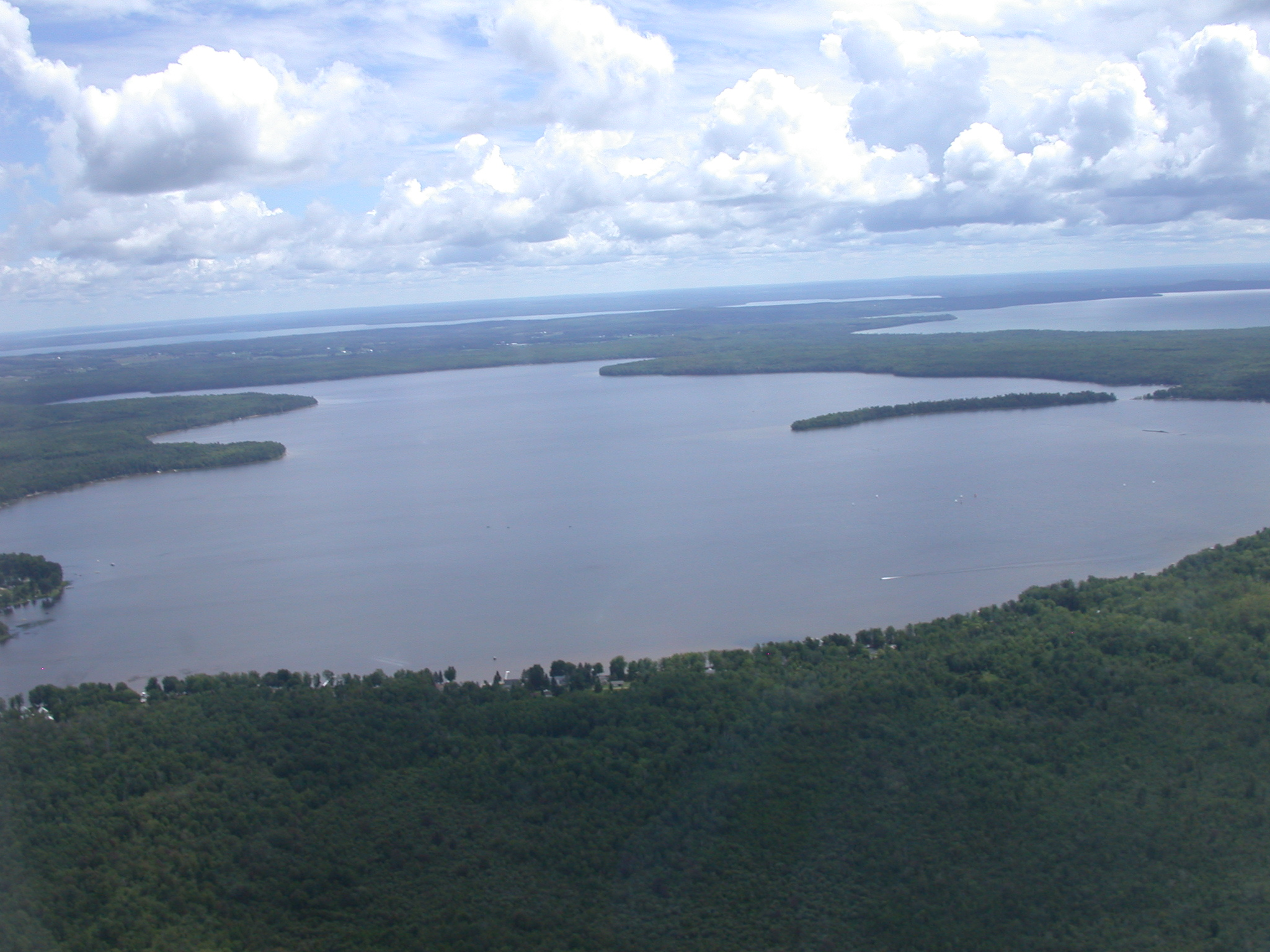 An oblique aerial photo looking southeast at Douglas Lake, Cheboygan County, Michigan. Pells Island is located to the right. The University of Michigan Biological Station is located at the far end of the photo.